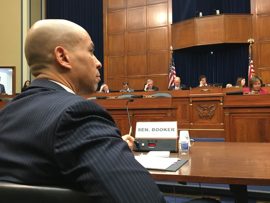 Testifying right now in front of a House Oversight subcommittee on my bipartisan #BanTheBox legislation: the Fair Chance Act. This bill has now passed out of its Senate committee 3 times. Looking forward to the day it gets signed into law.